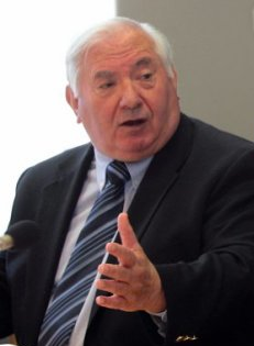 Michel Pelieu : Président du Conseil Général 65